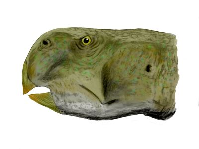 Head of Psittacosaurus mongoliensis, one of the numerous species of Psittacosaur from the Early Cretaceous of Mongolia, pencil drawing